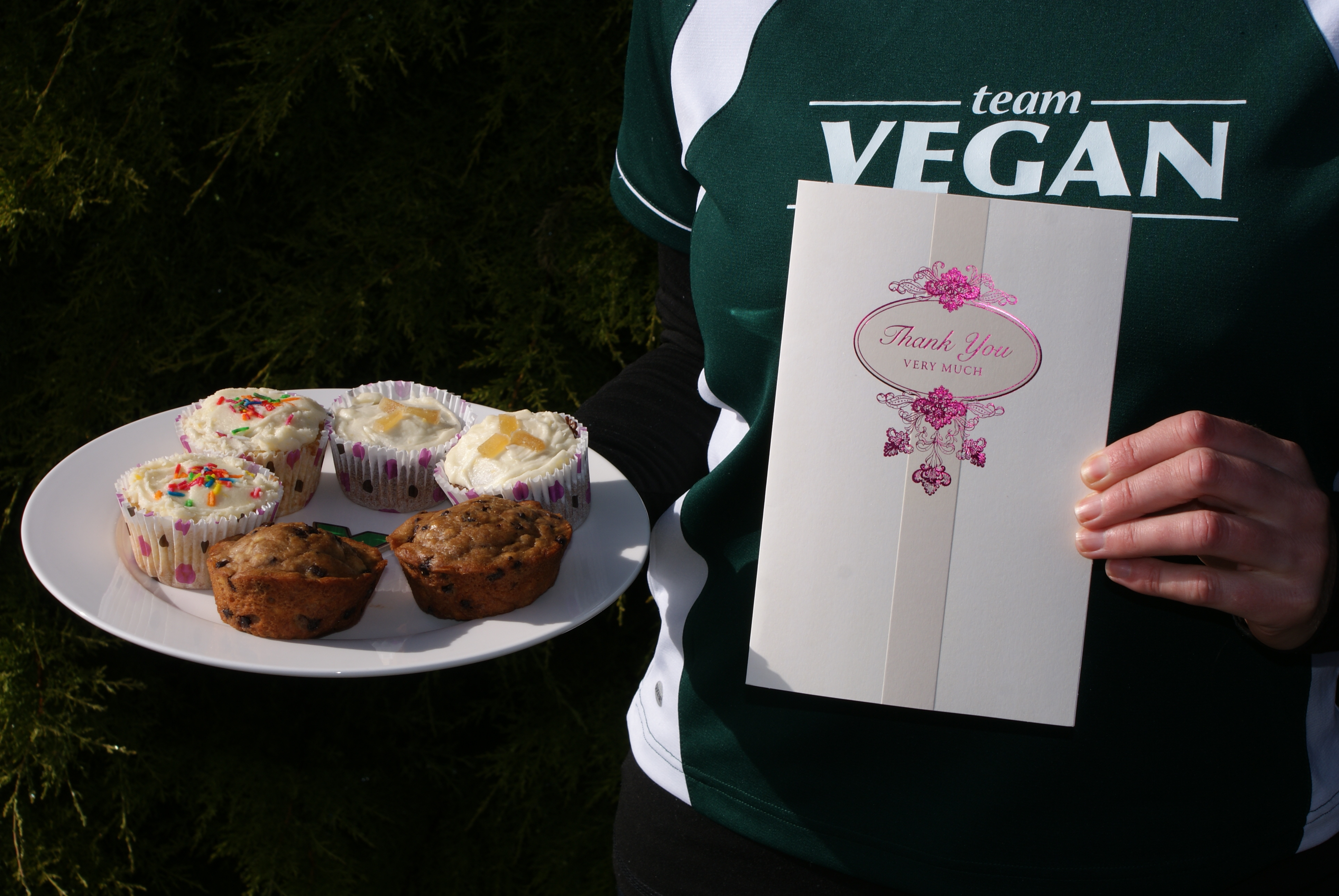 Invercargill Vegan Society members give out thank you cards and muffins to Vegan friendly local businesses